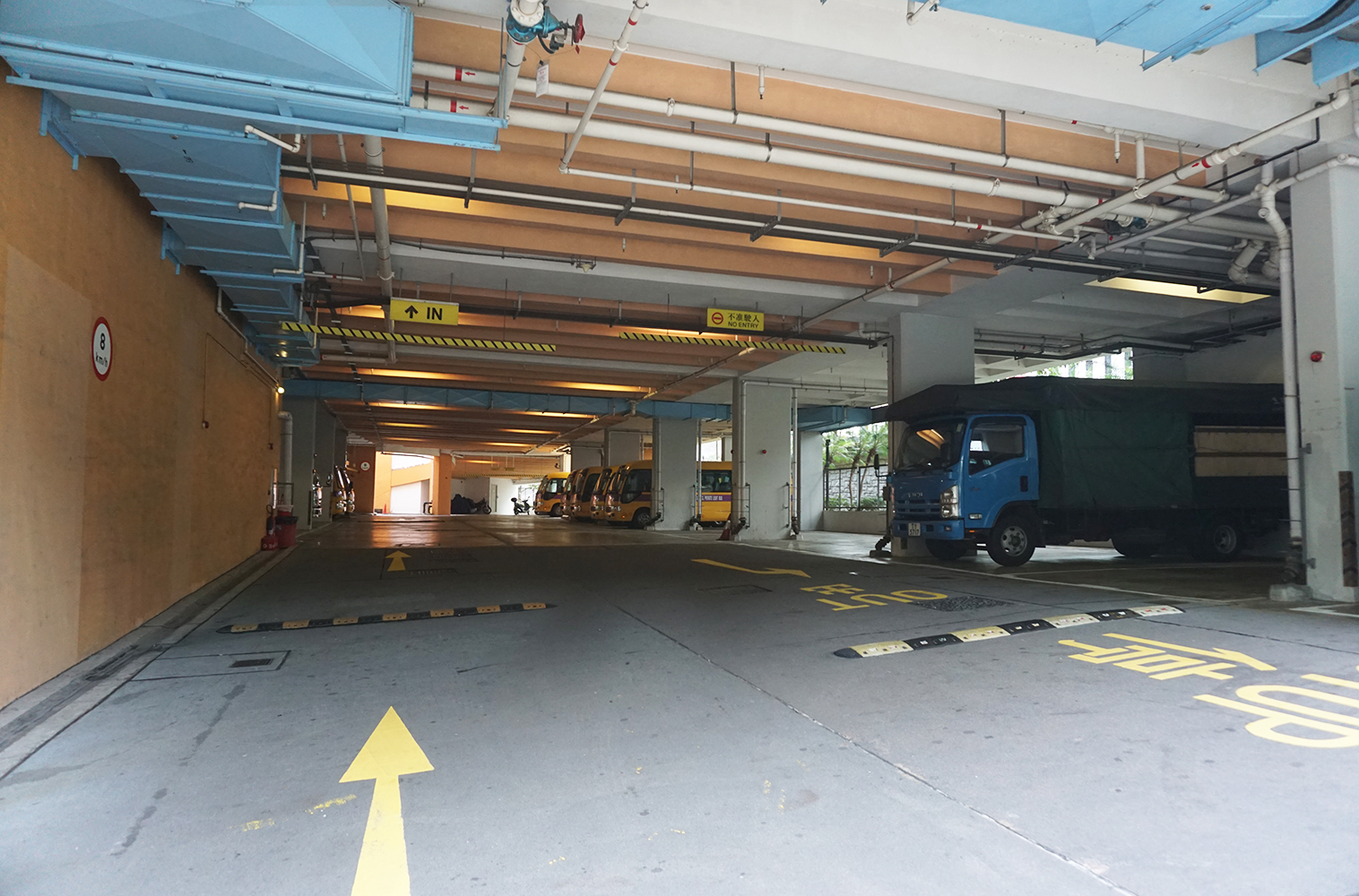 Choi Ying Estate in Kowloon Bay, Hong Kong.